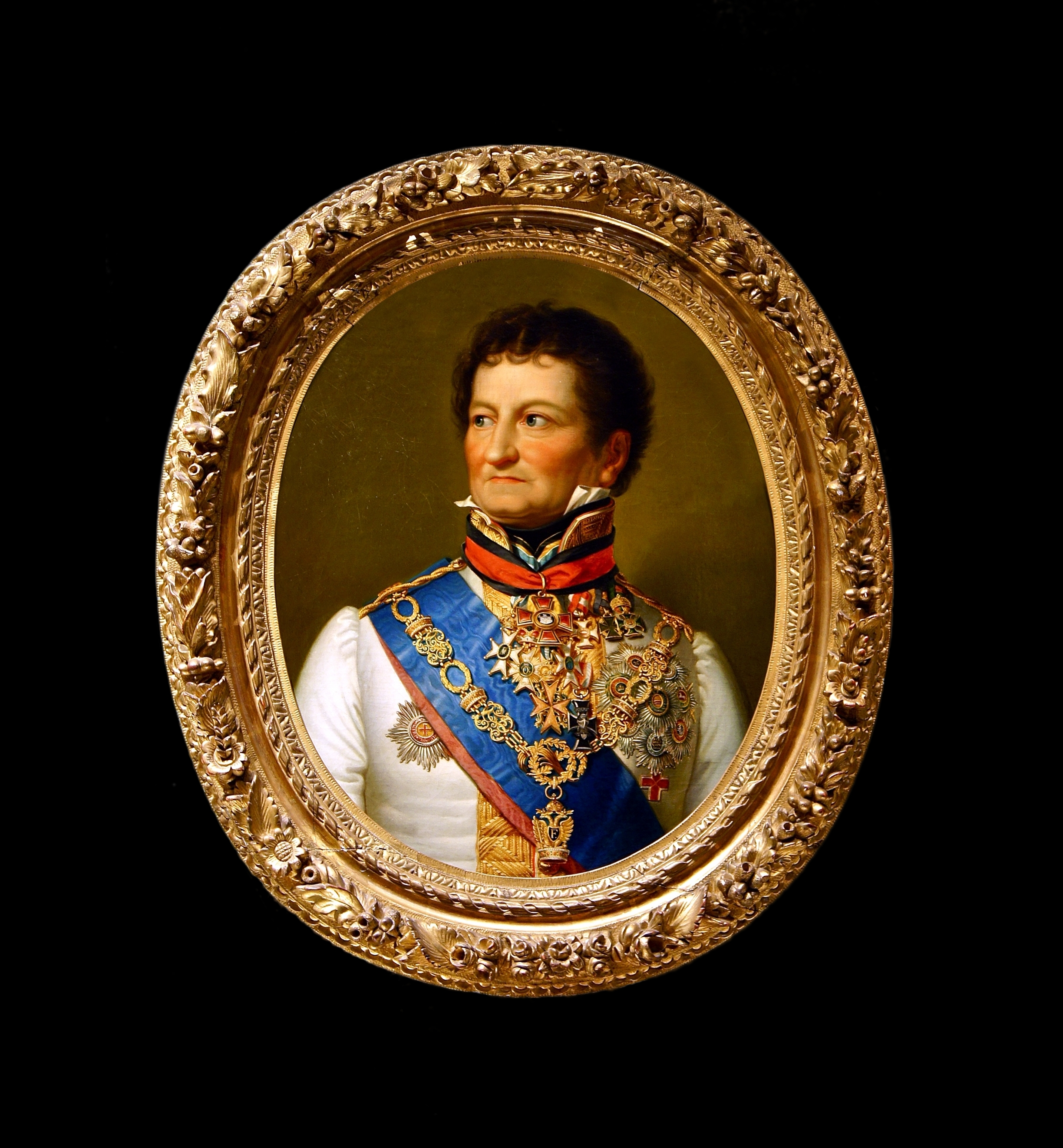 Austrian General Baron Jean Pierre Theodore de Wacquant-Geozelles, wearing, among other medals, the collar of the austrian Order of the Iron Crown.